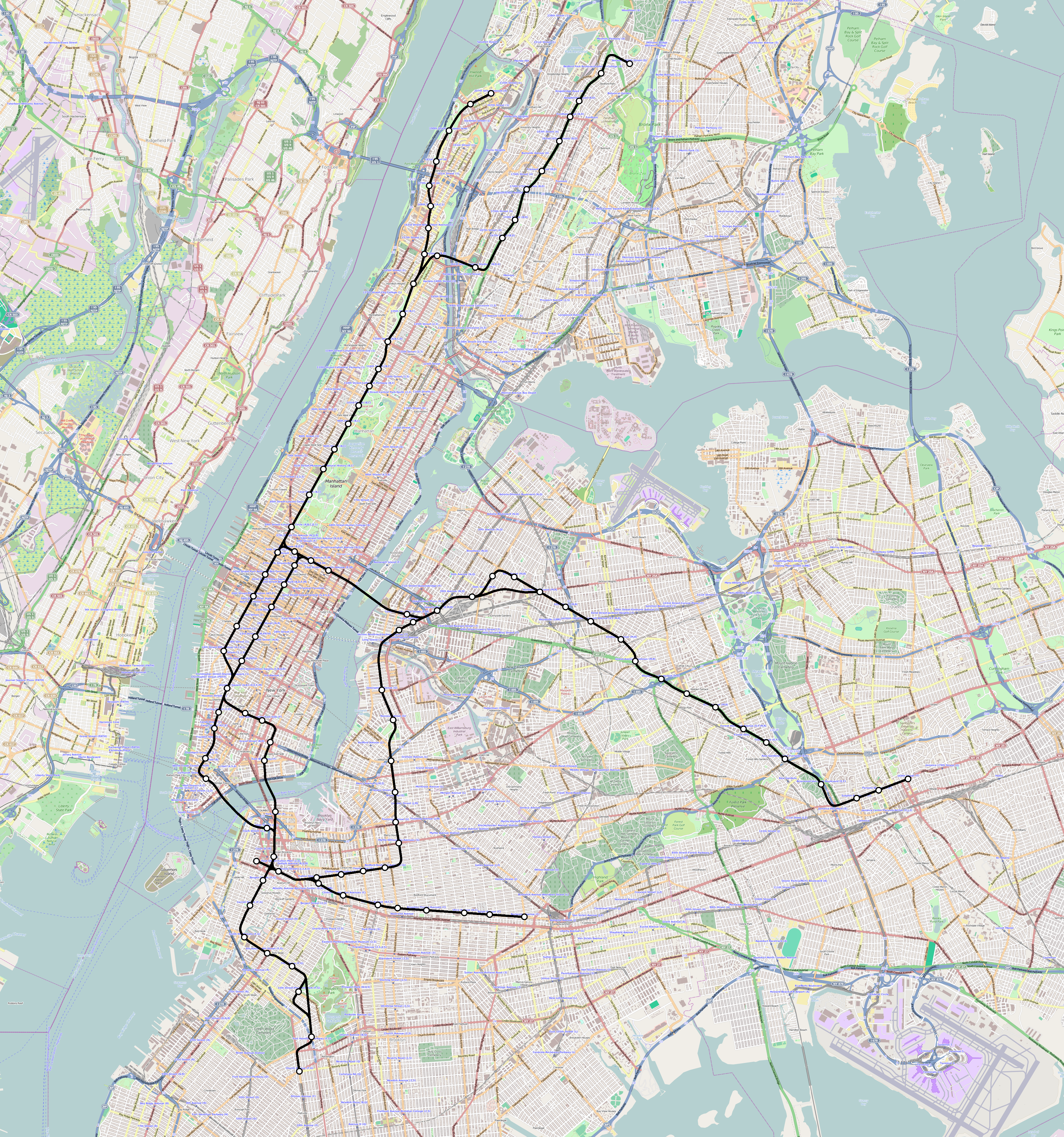 Independent Subway System map in 1940